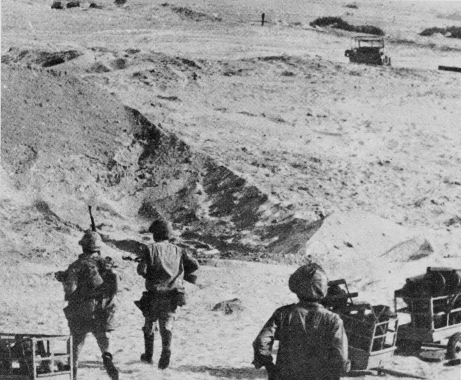 Egyptian soldiers on the east bank. Visible are the four-wheeled carts widely used to transport weapons and equipment while no vehicles had crossed the canal yet.